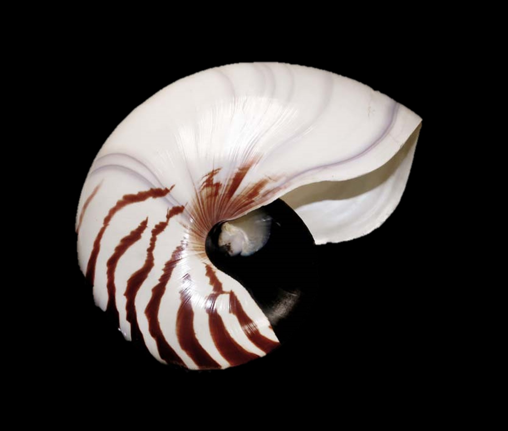 Nautilus shells from near the island of Panglao in the Philippines and those from the southern Camotes Sea east of Cebu have the same unusual colour variations - slightly purplish in colour and some, rarely, display dramatic purple lines. This specimen is certainly one of the most perfect ever seen. The pure white colour of the body chamber and the superb pastel purple lines make it a true museum piece to be treasured. It was featured in the book NAUTILUS: Beautiful Survivor by Wolfgang Grulke published in 2016.